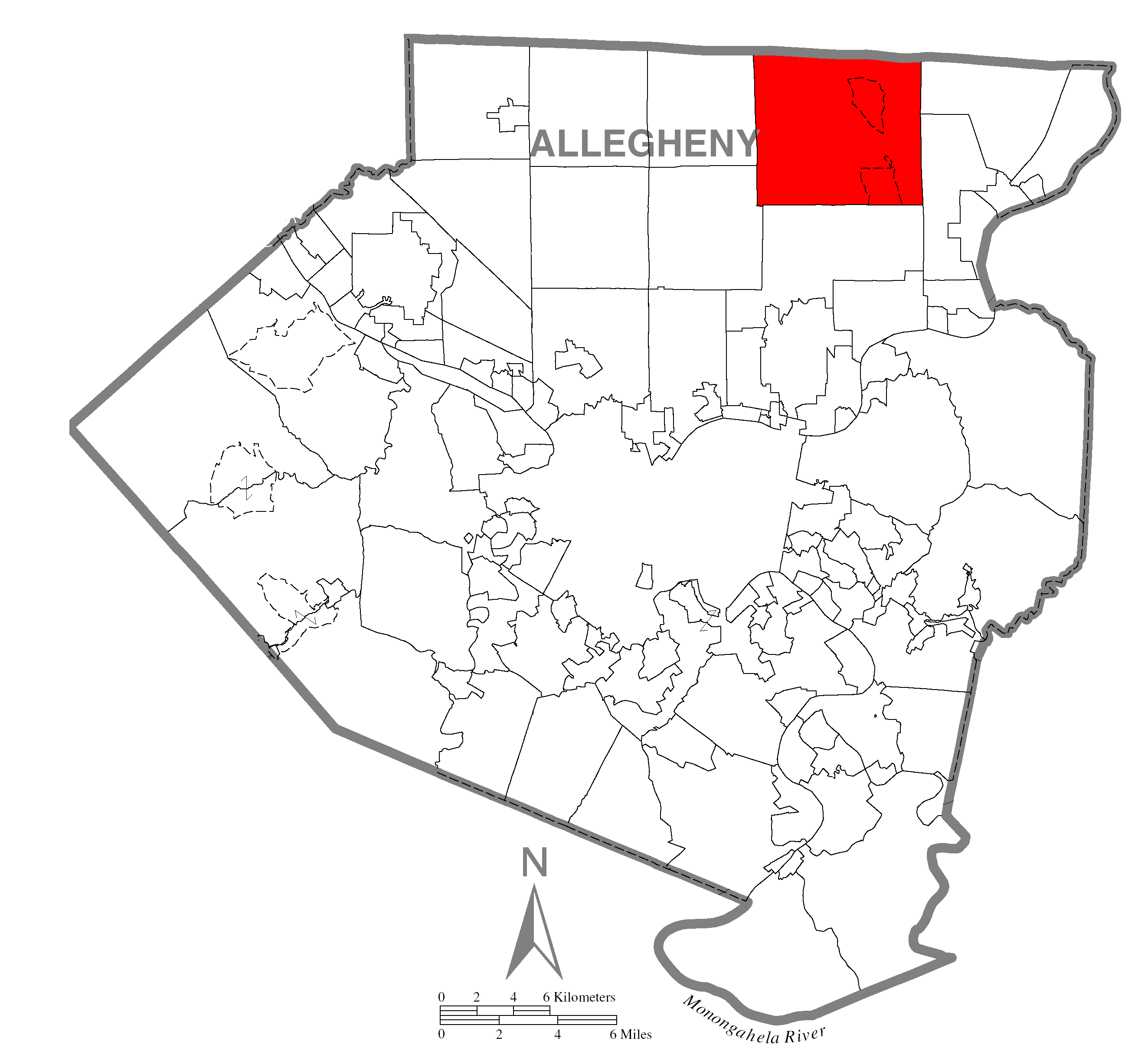 A map of Allegheny County showing West Deer Township, Pennsylvania (alternate) highlighted on the map.